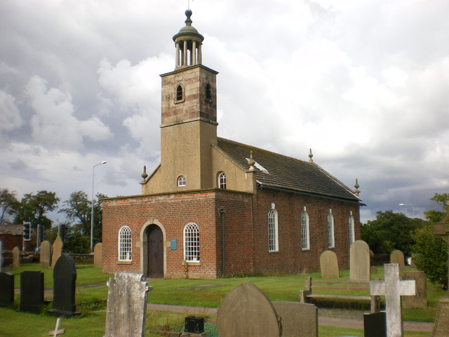 St Mary's, Tarleton, near to Tarleton, Lancashire, Great Britain. Link